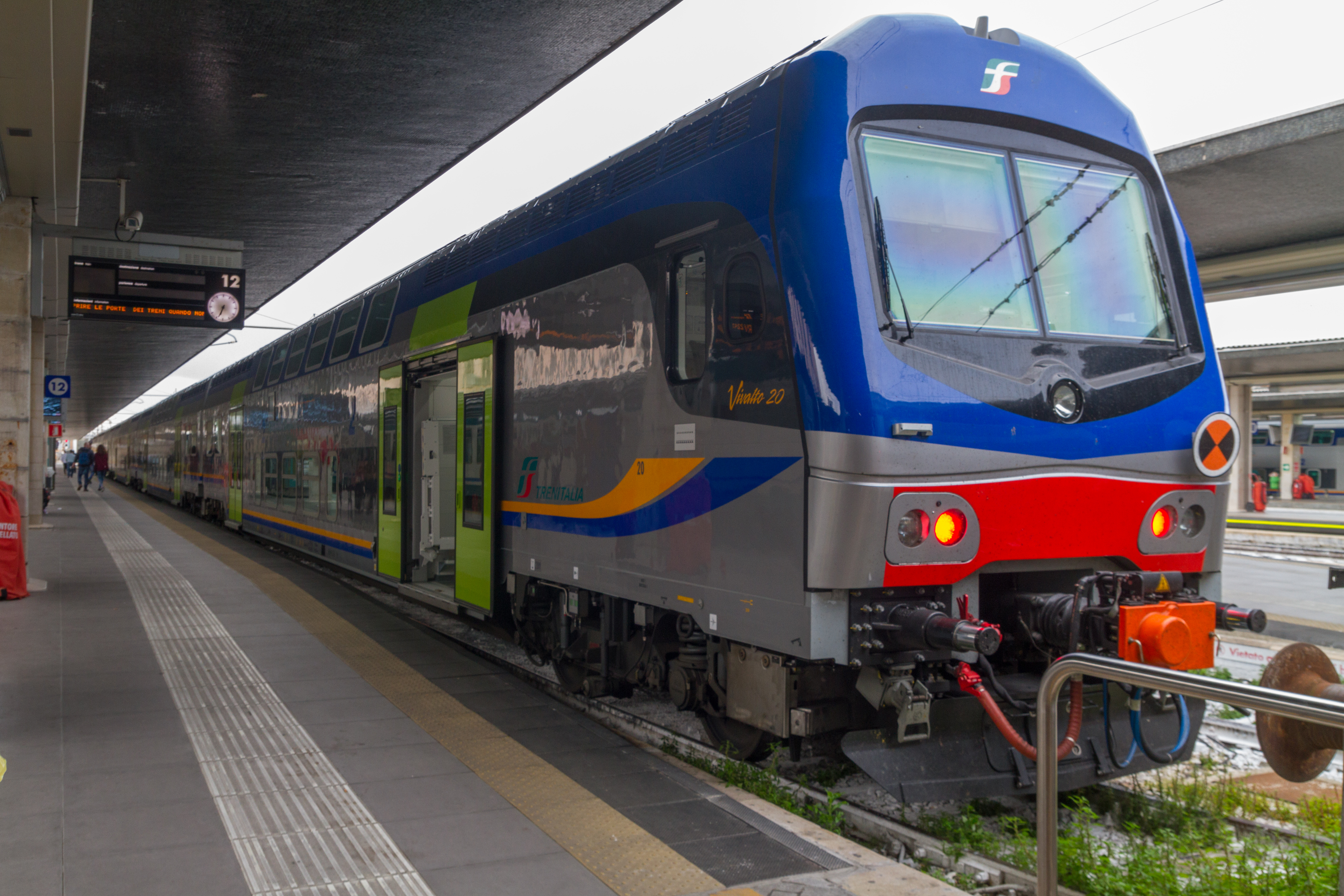 FS Vivalto 20 at Venezia Santa Lucia train station